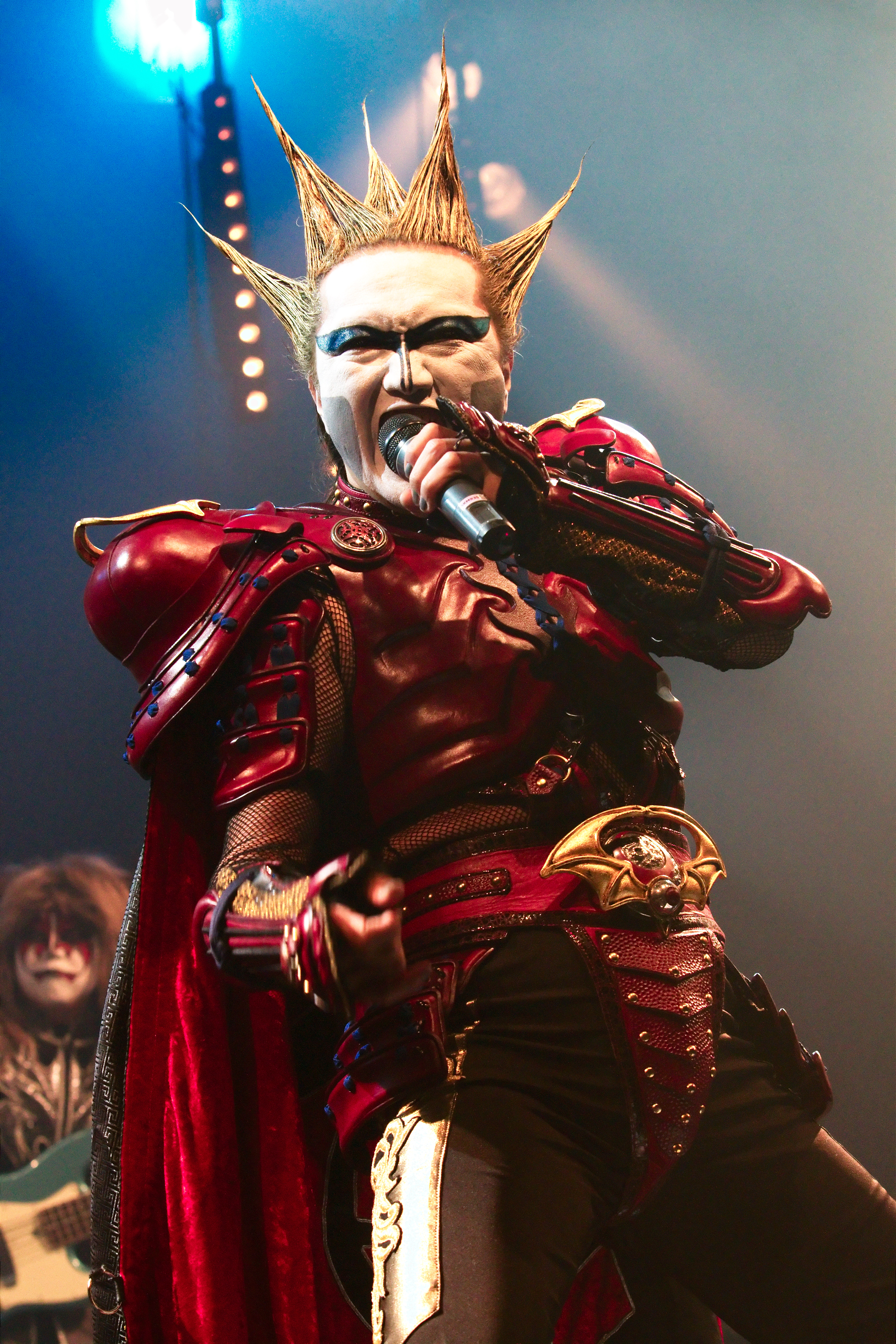 Seikima-II live at Japan Expo 2010 (Paris, France).